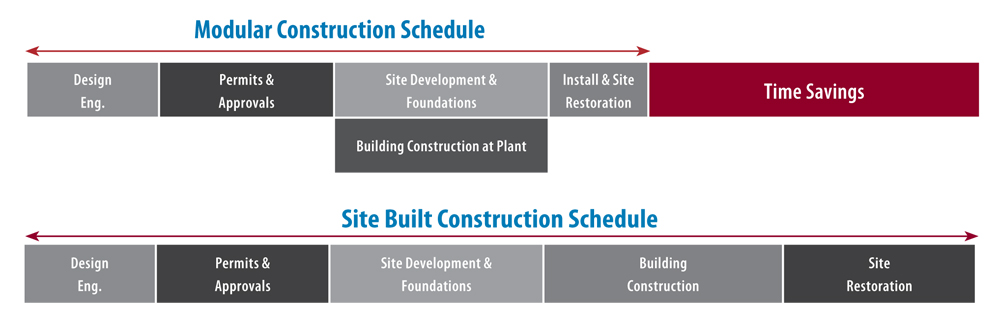 Modular construction timeline